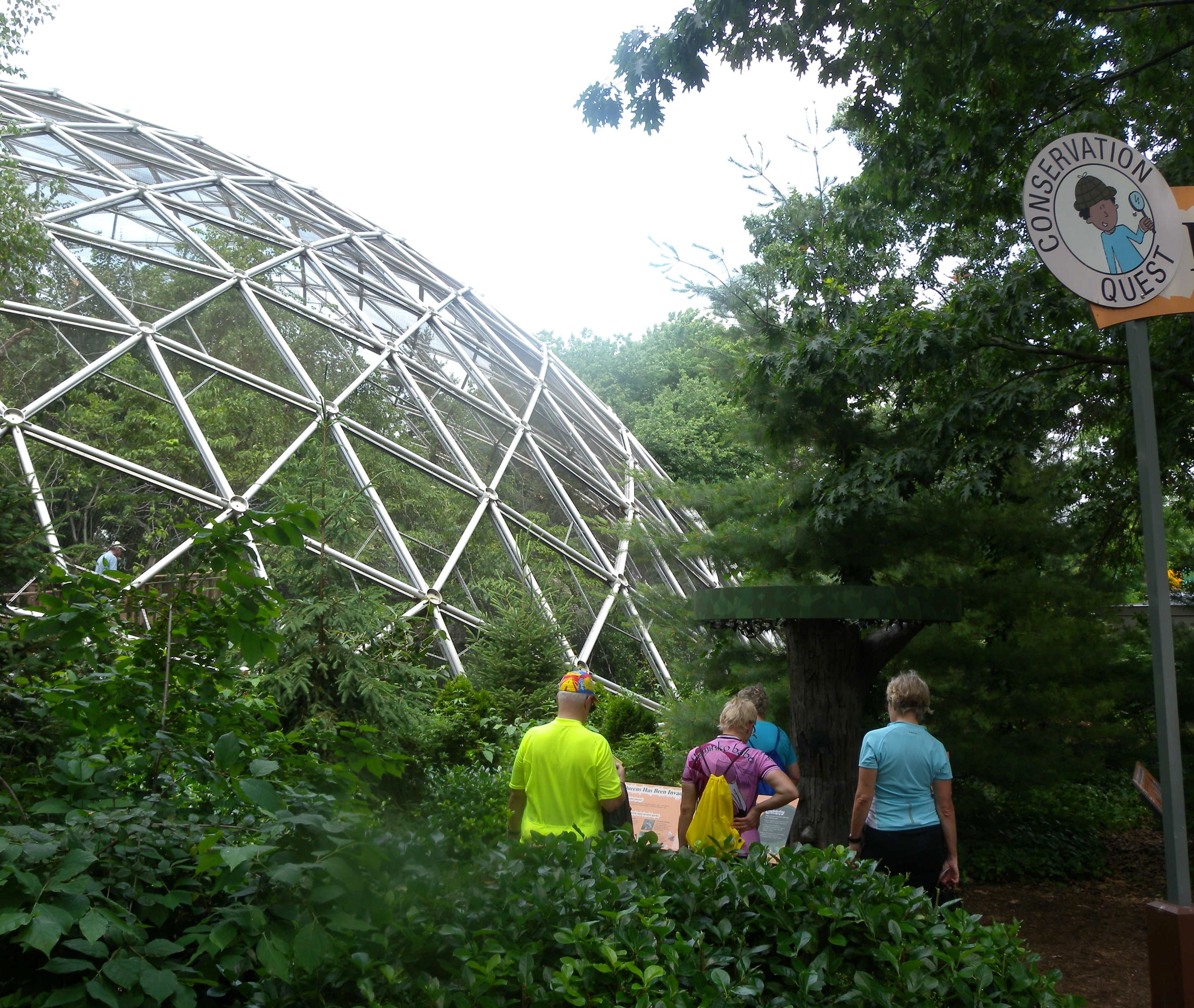 The aviary dome on a cloudy day.